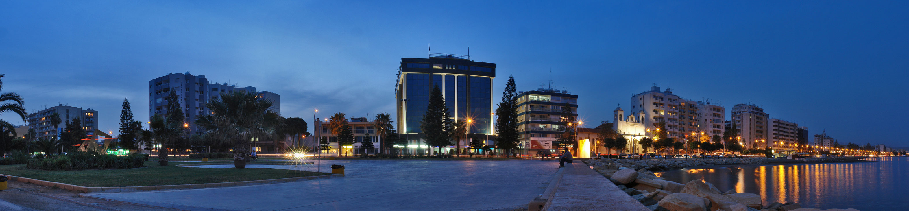 Night time view of the seaside of Limassol, Cyprus